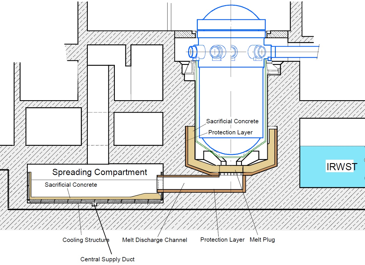 Schemata of EPR's core-catcher